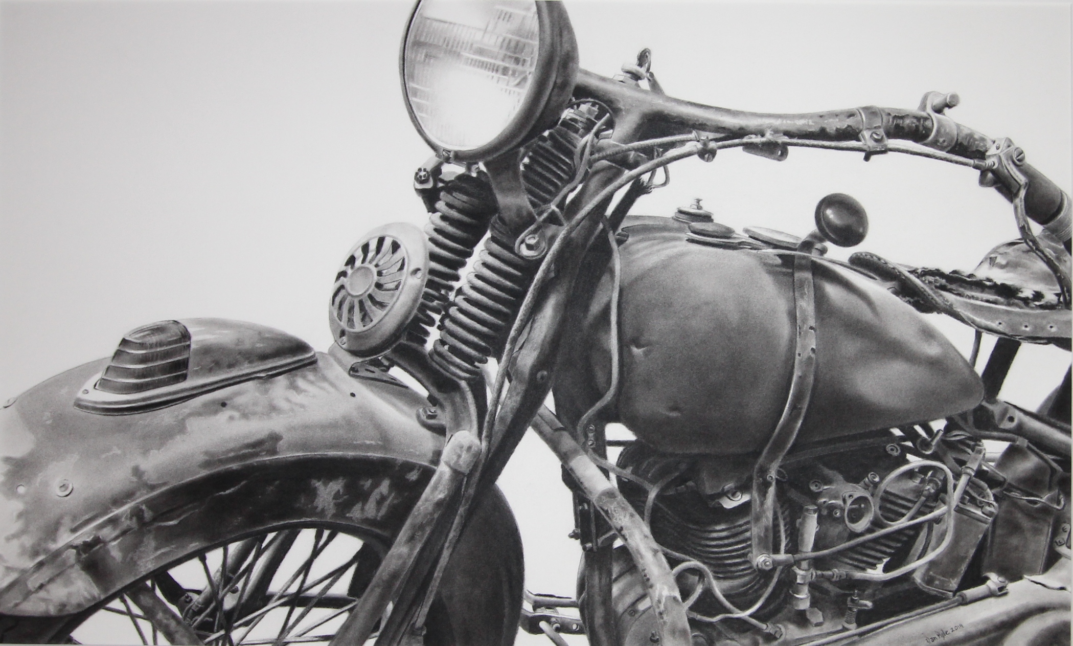 Dan PYLE's painting "Weary Traveler"